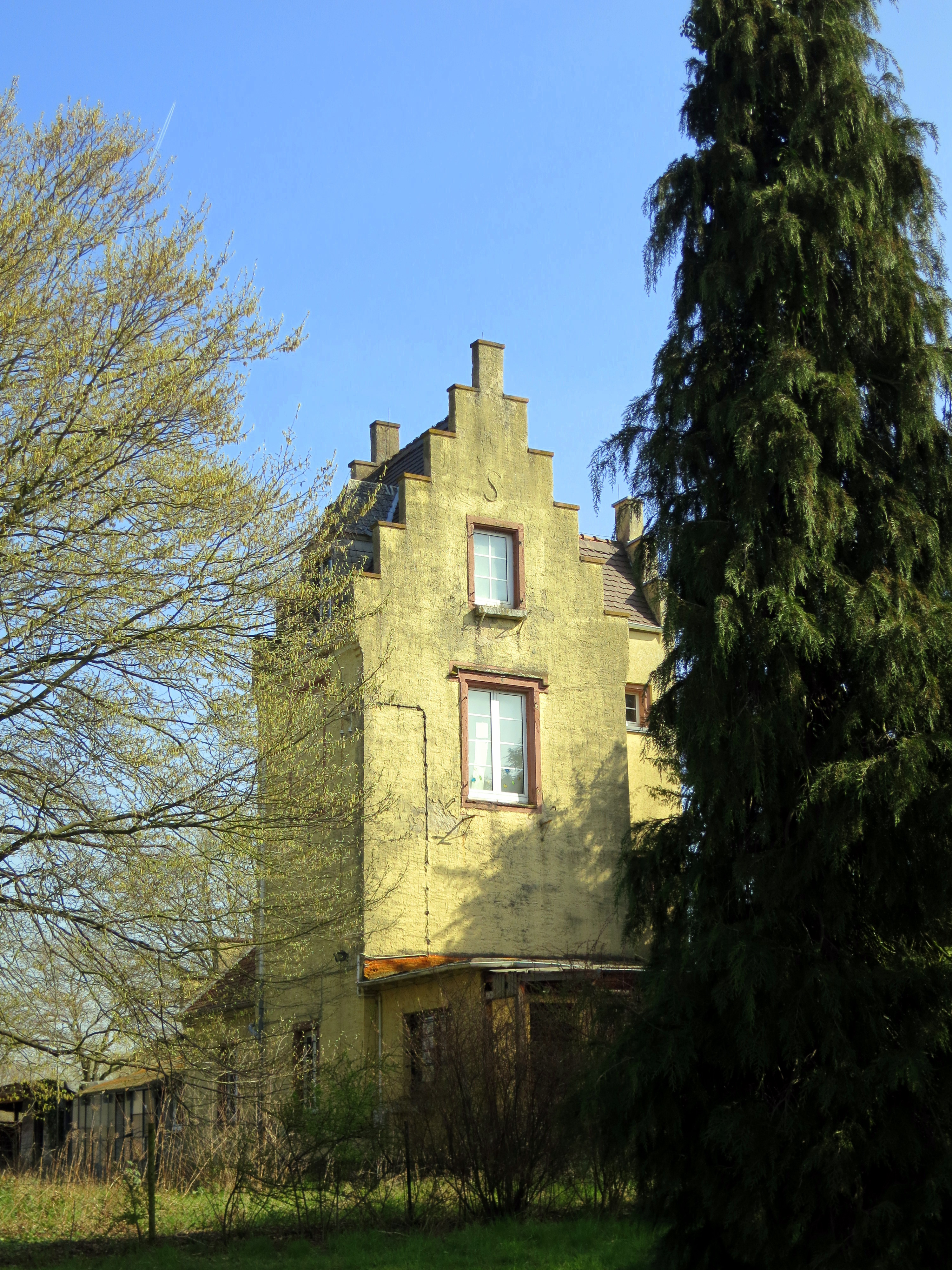 Spanish tower in the Park Rosenhöhe